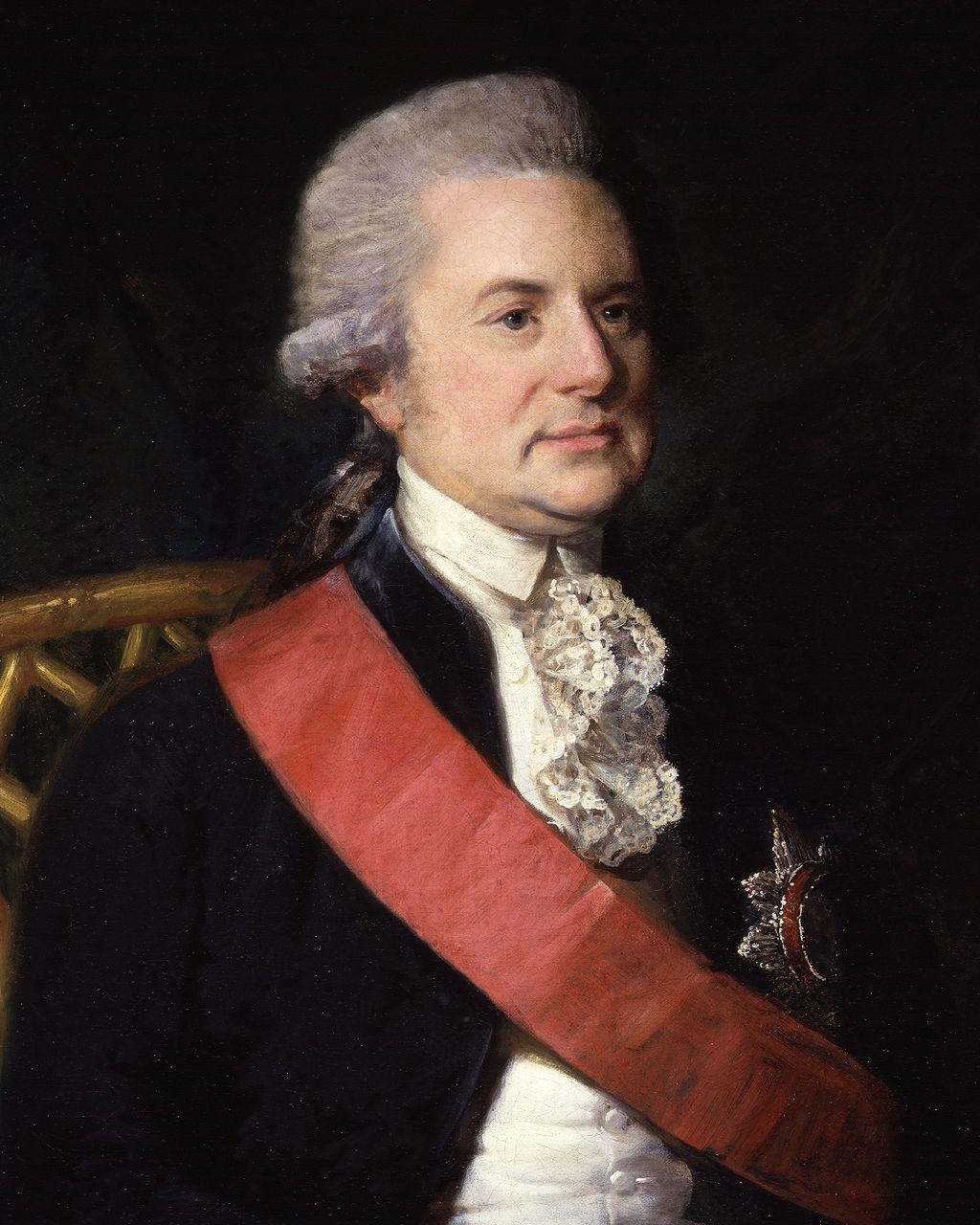 Cropped detail of File:George Macartney, 1st Earl Macartney; Sir George Leonard Staunton, 1st Bt by Lemuel Francis Abbott.jpg.